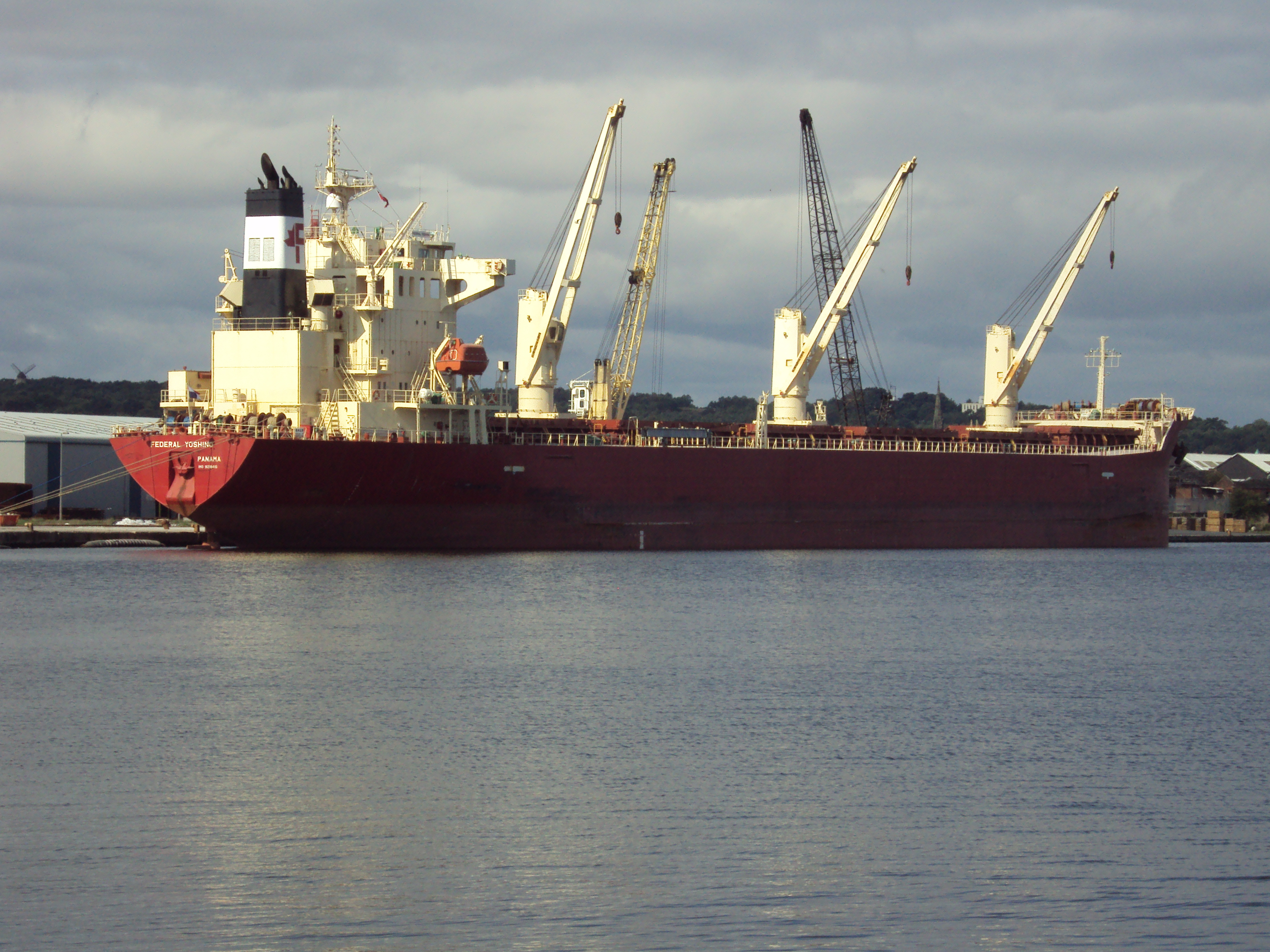 Federal Yoshino, bulk carrier merchant ship at West float dock, Birkenhead, Wirral, England. Bidston Hill windmill can be seen in the background at extreme left of photo. IMO Number: 9218416 MMSI Number: 353825000 Callsign: H3VB Length: 190 m Beam: 24 m